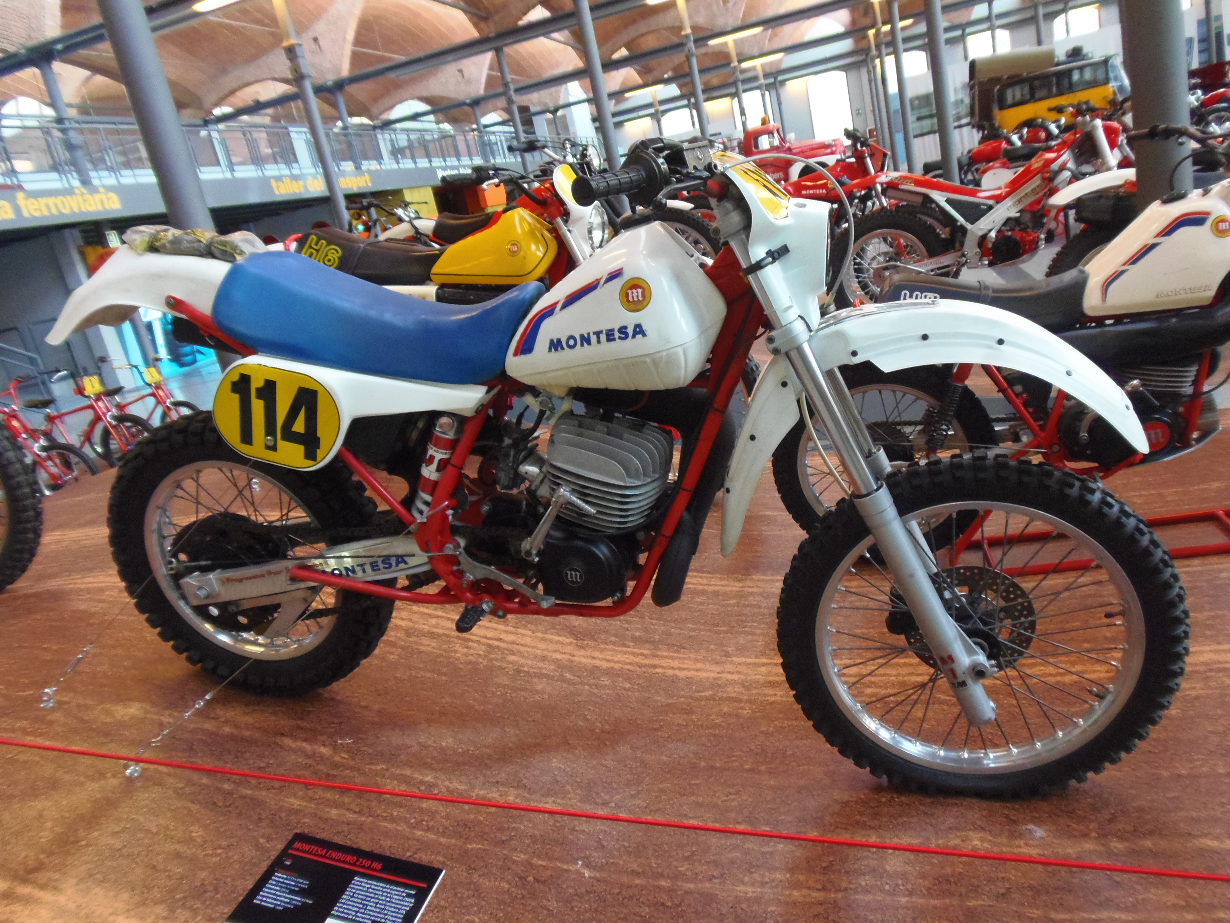 1985 Montesa Enduro 360 H7 "PRS" prototype (the filename is wrong), ridden by Carles Mas. Mas won the 1985 Spanish Championship on this bike and the second place at ISDE'85 Trophee (5th on class 500cc).